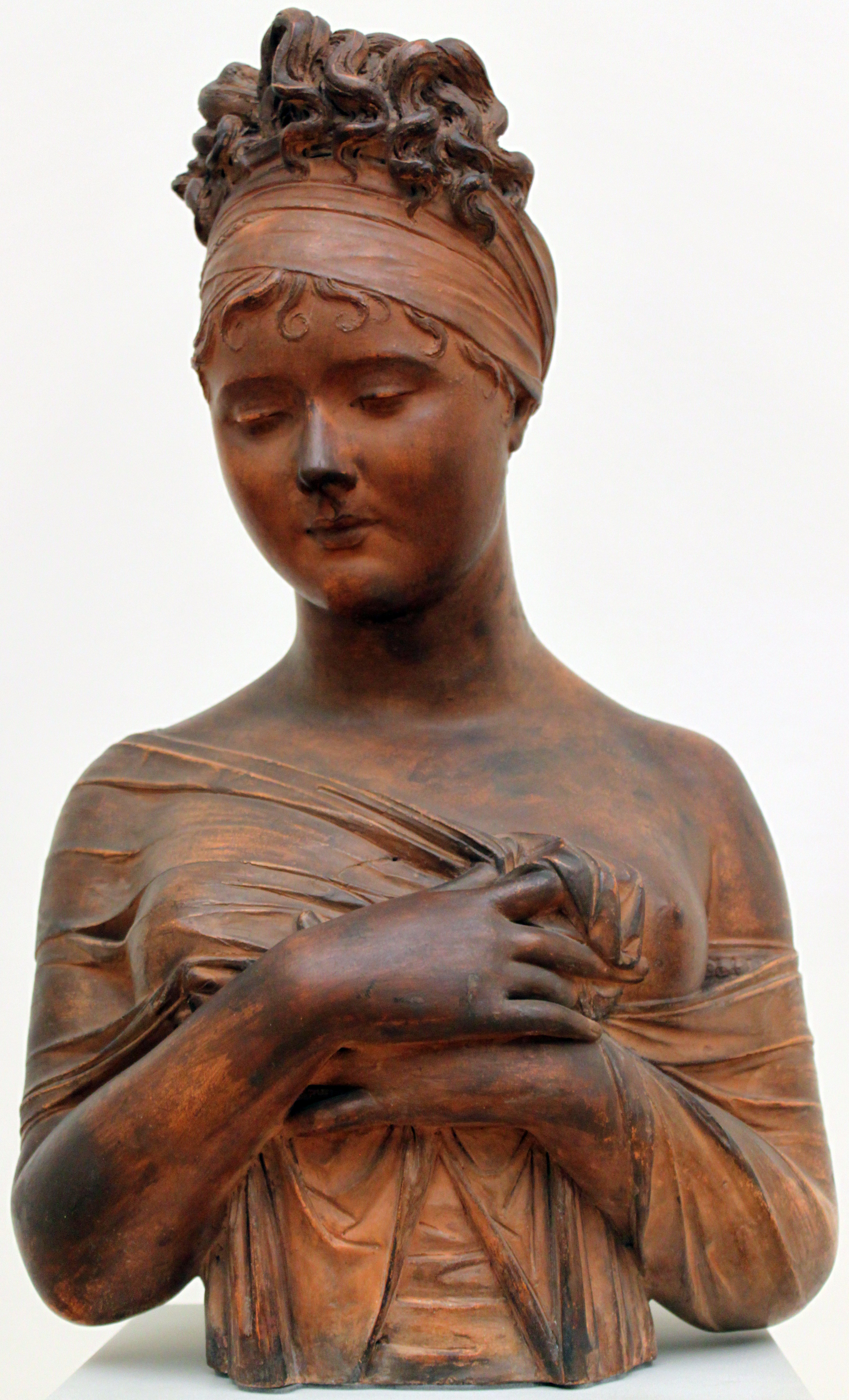 Joseph Chinard (1756–1813) Description French sculptor Date of birth/death12 February 175620 June 1813Location of birth/deathLyonLyonWork locationFranceAuthority control VIAF: 37186319 LCCN: n85148574 GND: 124097774 BnF: cb149571050 ULAN: 500115874 ISNI: 0000 0000 6661 8445 WorldCat Madame Juliette Récamier; Paris, 1803; Bodemuseum (Kaiser Friedrich-Museums-Verein, Inv. M216)